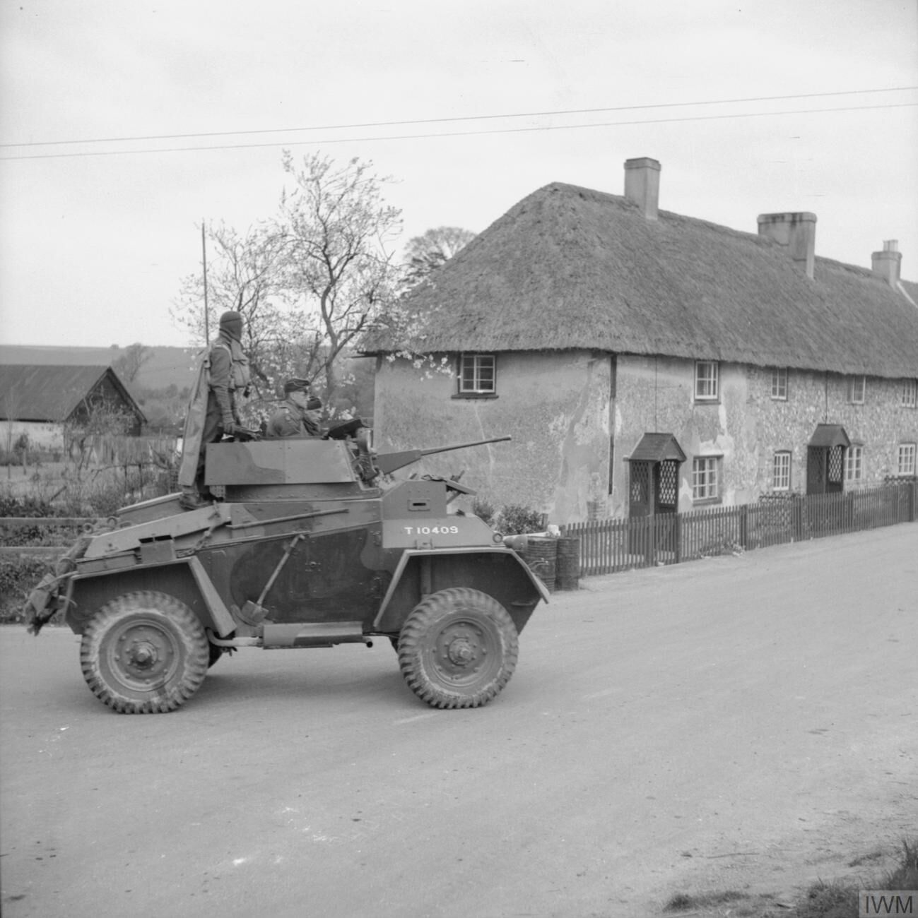 Guy Mk IA armoured car passing through a village during anti-invasion exercises in Southern Command, 7 May 1941.